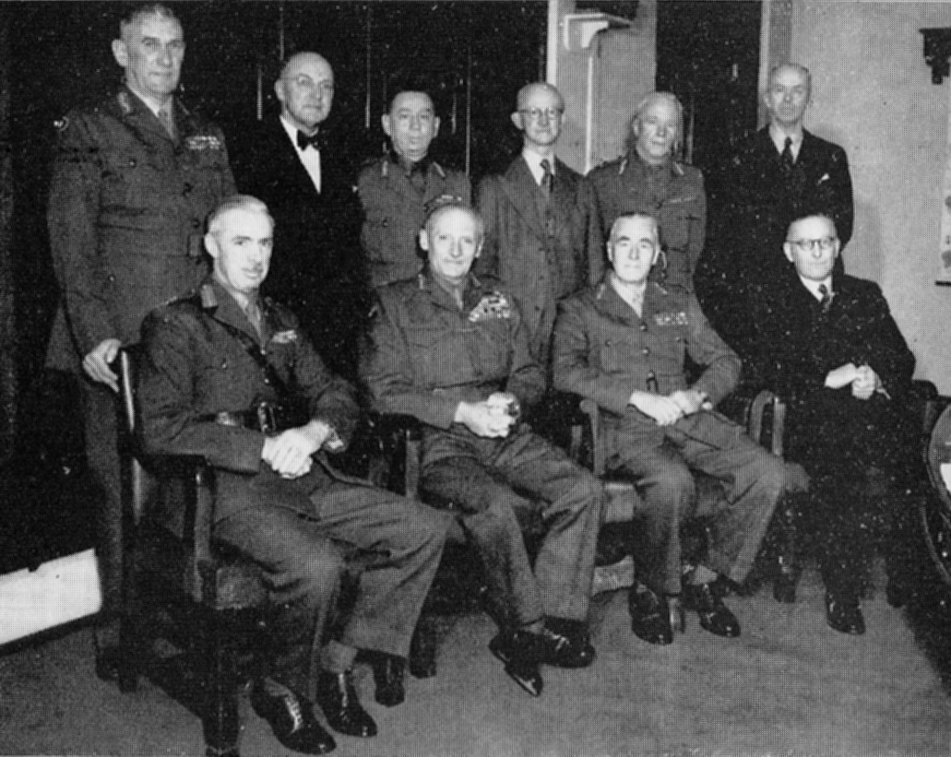 Melbourne, Vic. 1947. Field Marshal Viscount Montgomery Of Alamein, KG, GCB, KCB, CB, DSO, Chief of the Imperial General Staff, conferring with members of the Australian Military Board. Shown are left to right:- back row:- VX38969 Major General W. Bridgeford, CB, CBE, MC, Quartermaster General; Mr. R. H. Nesbitt, Business Member; VX60298 Major General W.M. Anderson, DSO, Adjutant General; Mr. J.T. Fitzgerald, Finance Member; VX85043 Major General W.W. Whittle, Master General of the Ordnance; Mr. C.B. Laffan, Secretary Of The Military Board; Front Row:- VX3 Lieutenant General S.F. Rowell, CB, CBE, Vice Chief of the General Staff; Lord Montgomery; NX35000 Lieutenant General V.A.H. Sturdee, CB, CBE, DSO, Chief Of The General Staff; Mr. F.R. Sinclair, Secretary to the Department of the Army.